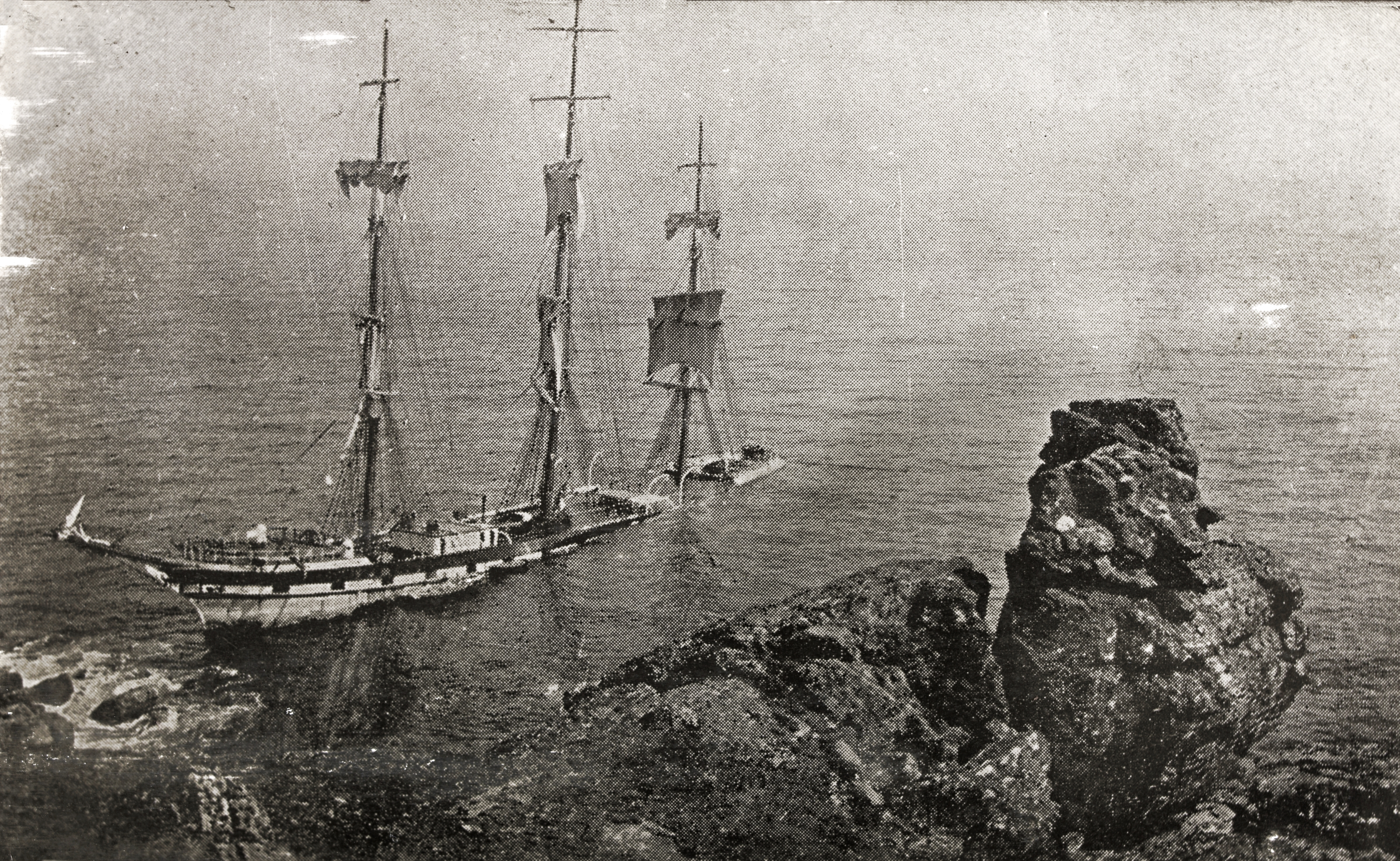 Original caption: “ALL HOPE ABONDON, YE WHO ENTER HERE. THE OLD SHIP CROMDALE, TOTALLY WRECKED AT THE LIZARD. Three masted full-rigged ship partly submerged and perilously close to cliffs off the Lizard on the Cornish coast, south-west England. The ship was built in Glasgow in 1891 and was wrecked in 1913.”